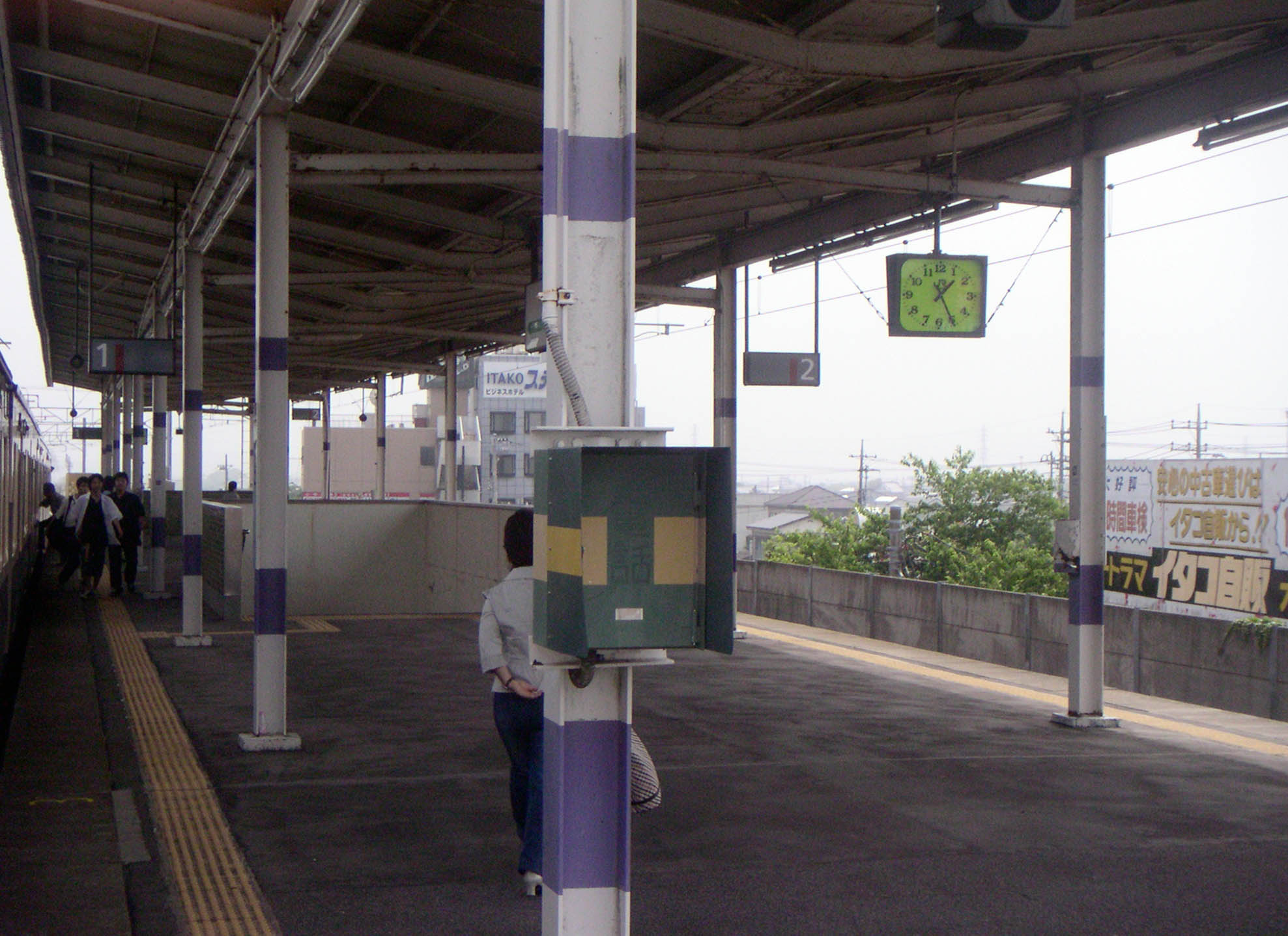 Itako Station, Japan